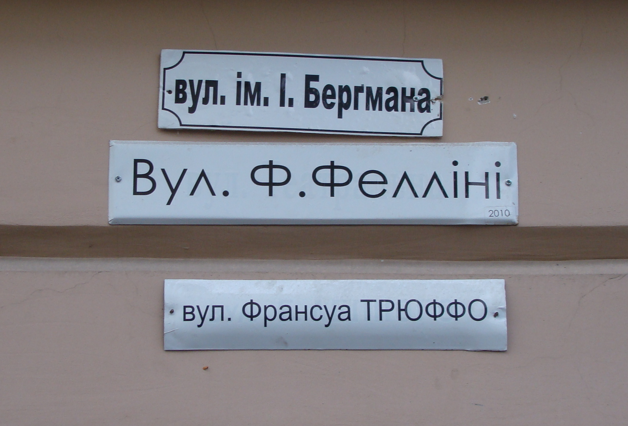 Vulycja Arxivna in Lviv, Ukraine.